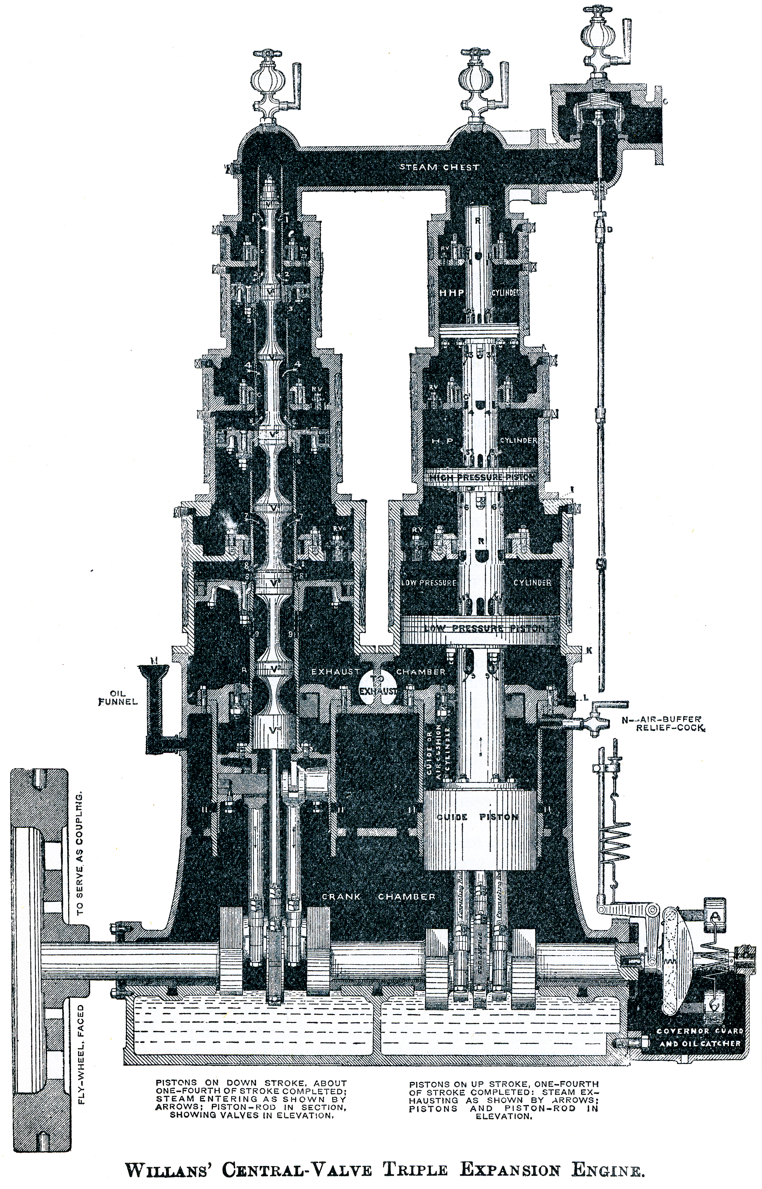 Cut-away diagram of Willans high-speed central-vave steam engine.